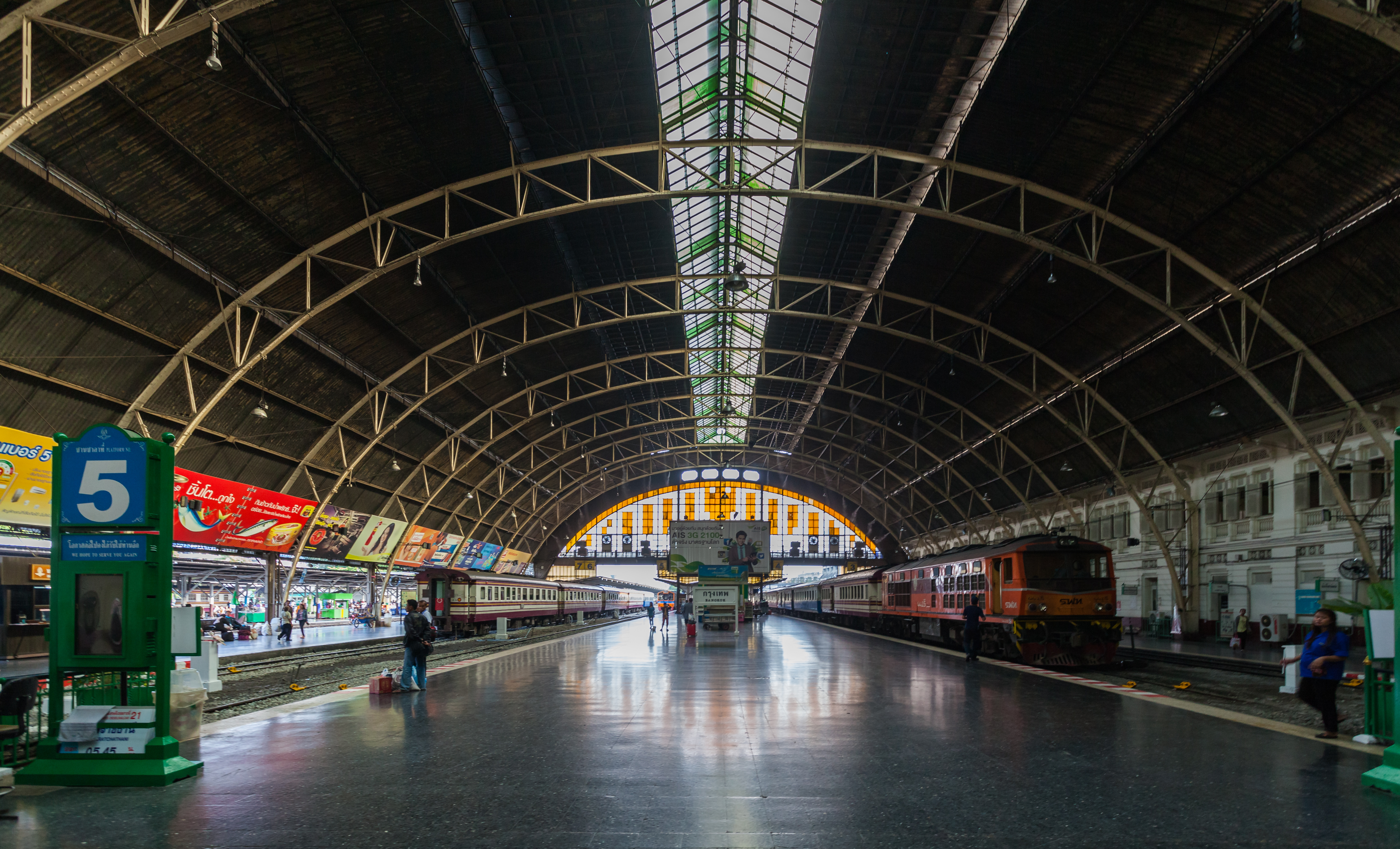 Hua Lamphong Railway Station, Bangkok, Thailand